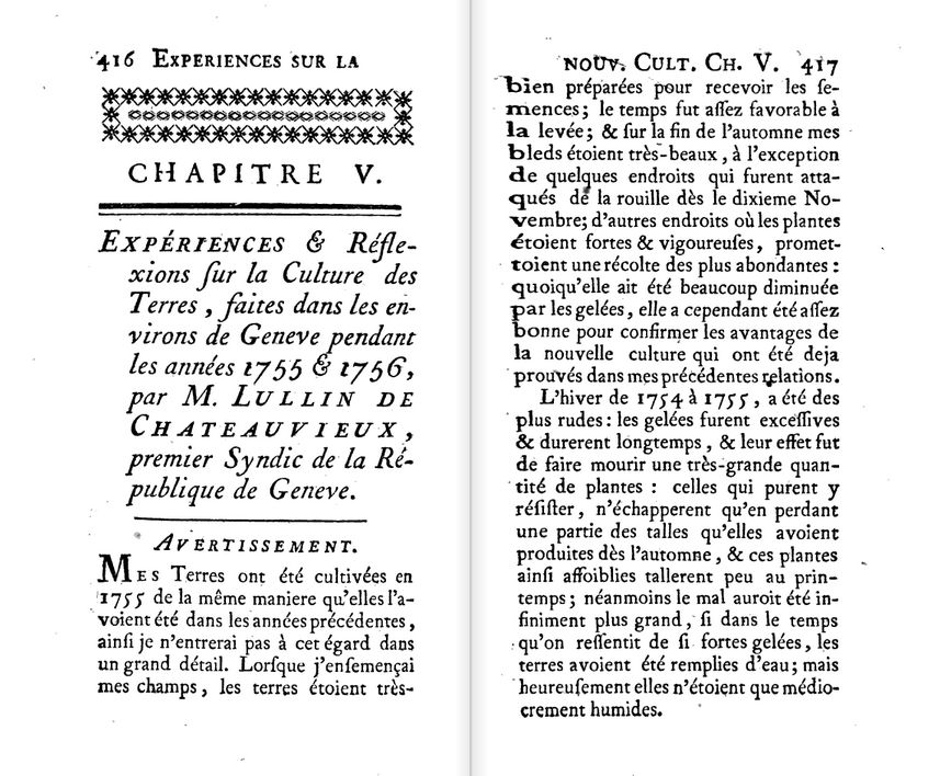 Expériences et réflexions sur la culture des terres, advertisement in Duhamel du Monceau's "Traité de la culture des terres," 1757